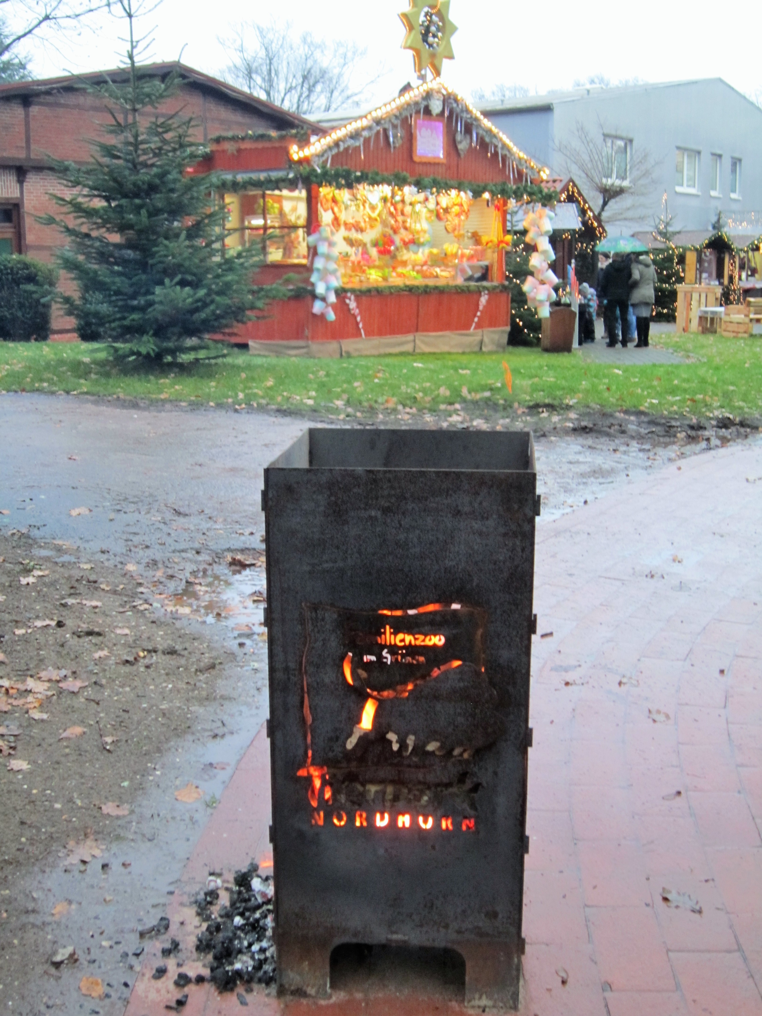 Christmas market in Nordhorn's zoo